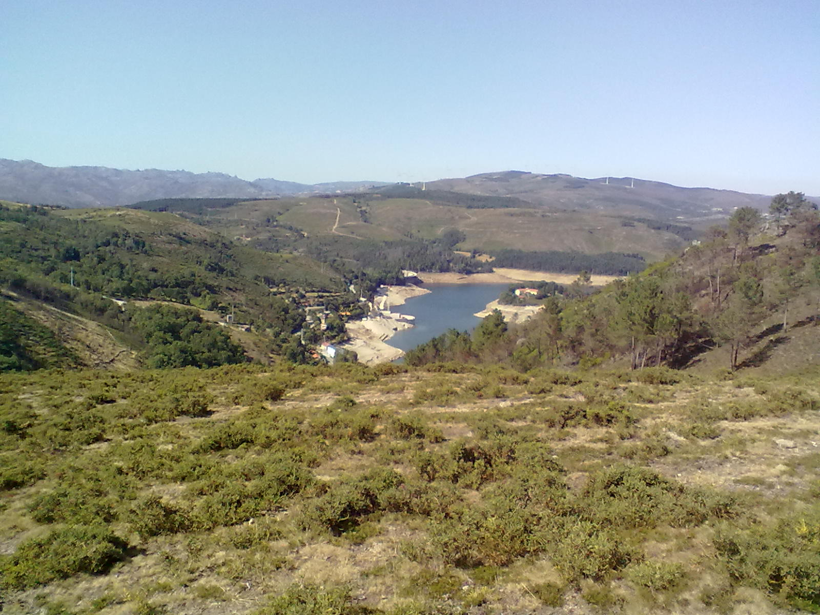 Barragem Venda Nova vista de Linharelhos (Portugal)